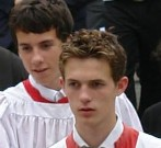 Singers from Chavagnes Choir